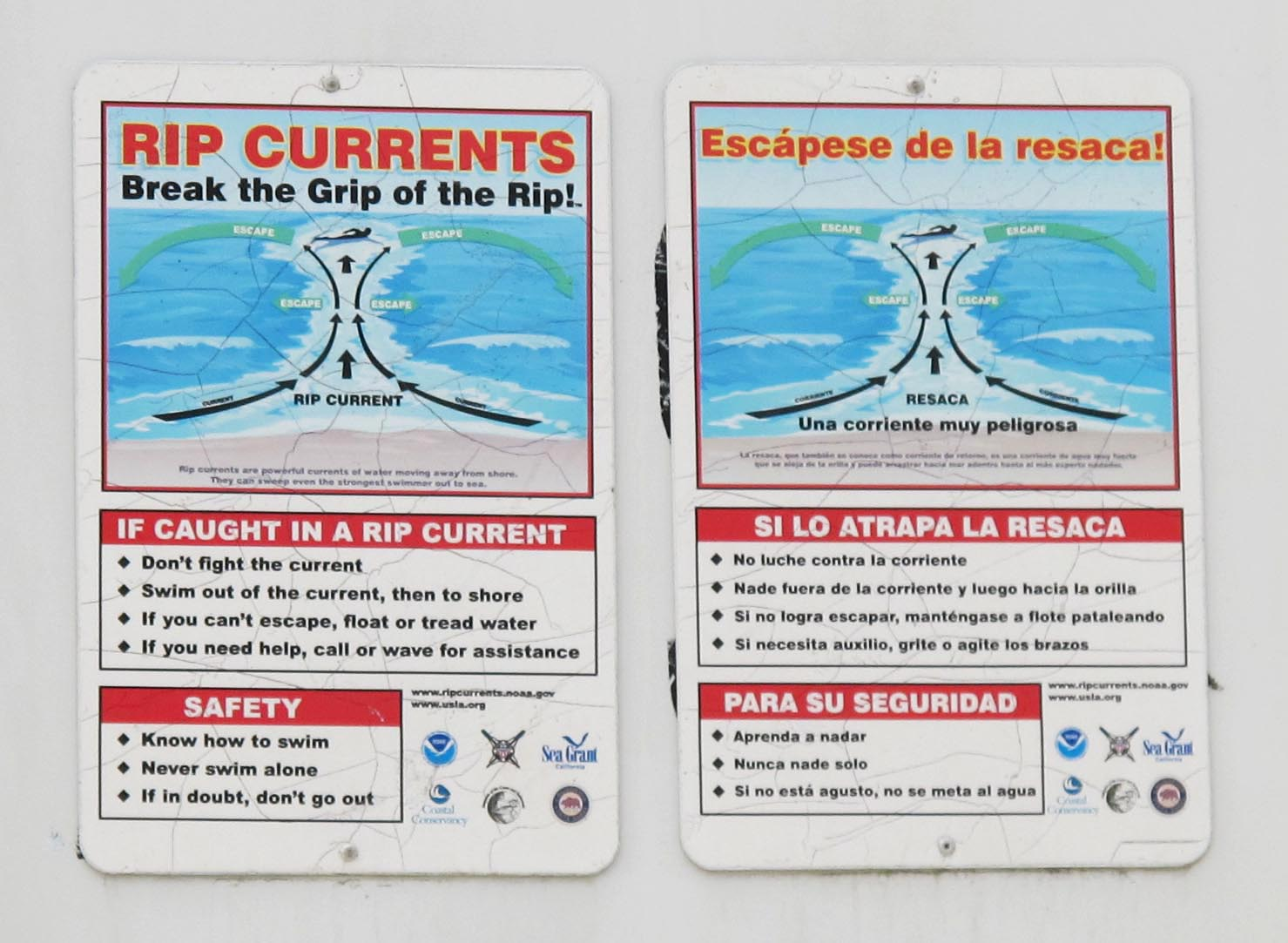 Rip current warning signs in English and Spanish at Mission Beach, San Diego, California